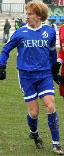 Alexandr Tochilin in action for FC Dinamo Moscow